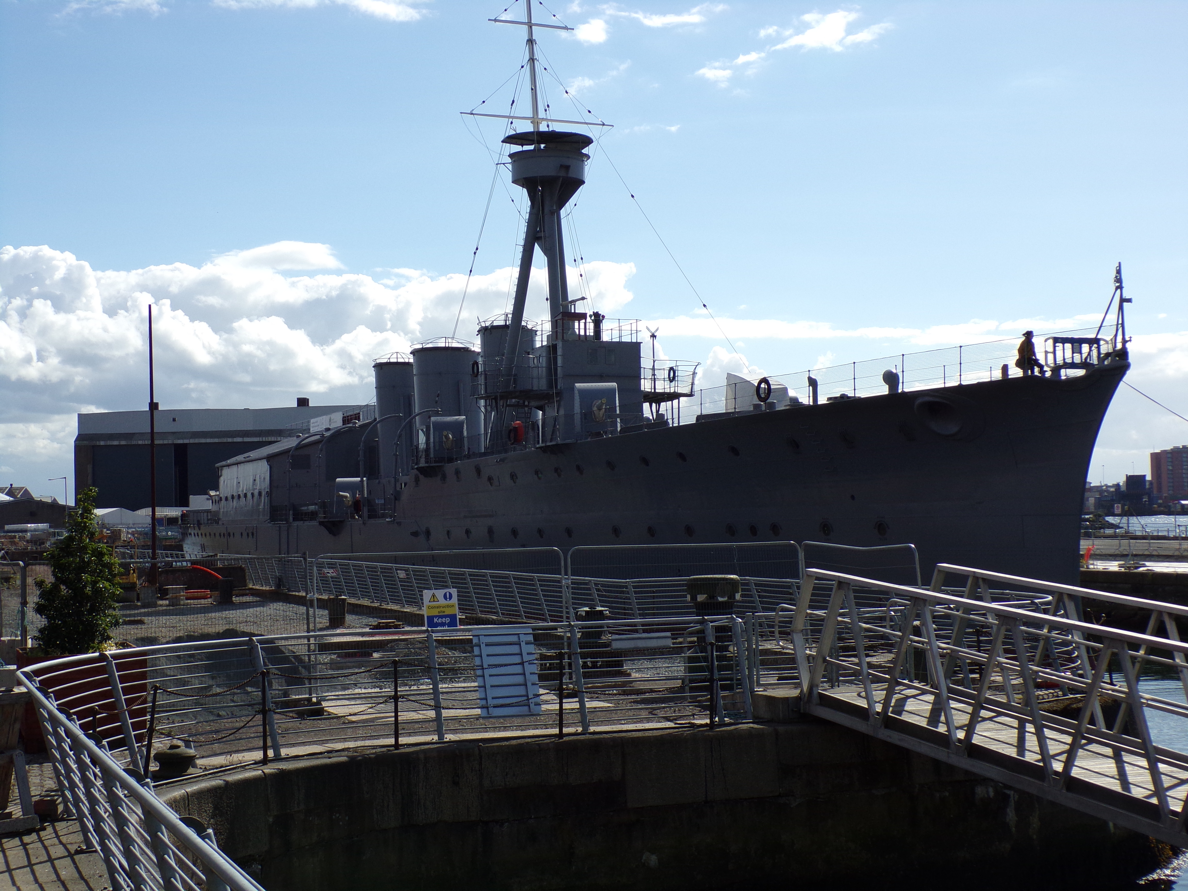 HMS Caroline restored as a Museum Ship